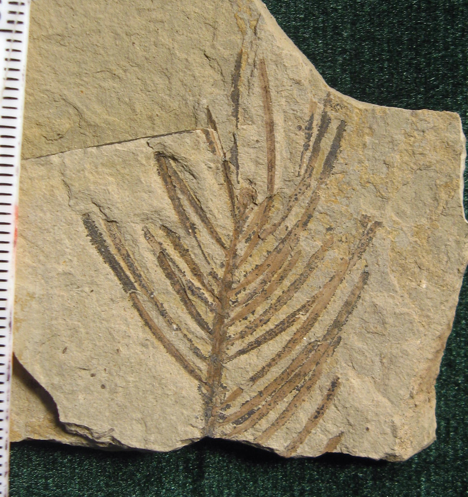 A 4.5cm tall Abies milleri twig tip with needles . Klondike Mountain Formation, Republic, Ferry County, Washington, USA, Eocene, Ypresian, 49 million years old. Stonerose Interpretive Center Collection #